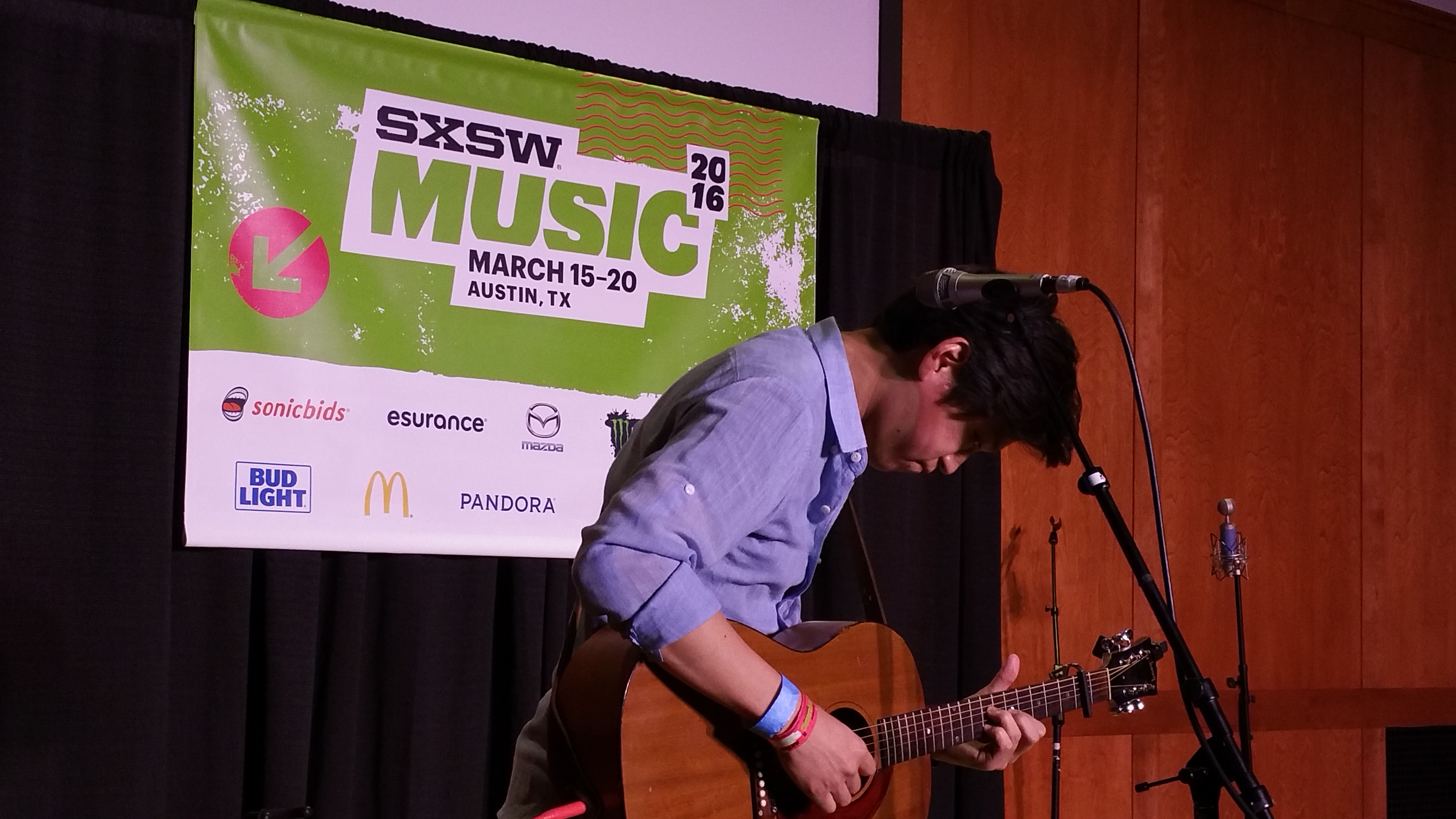 Big Phony, (Bobby Choy), SXSW 2016, St David's Bethell Hall.